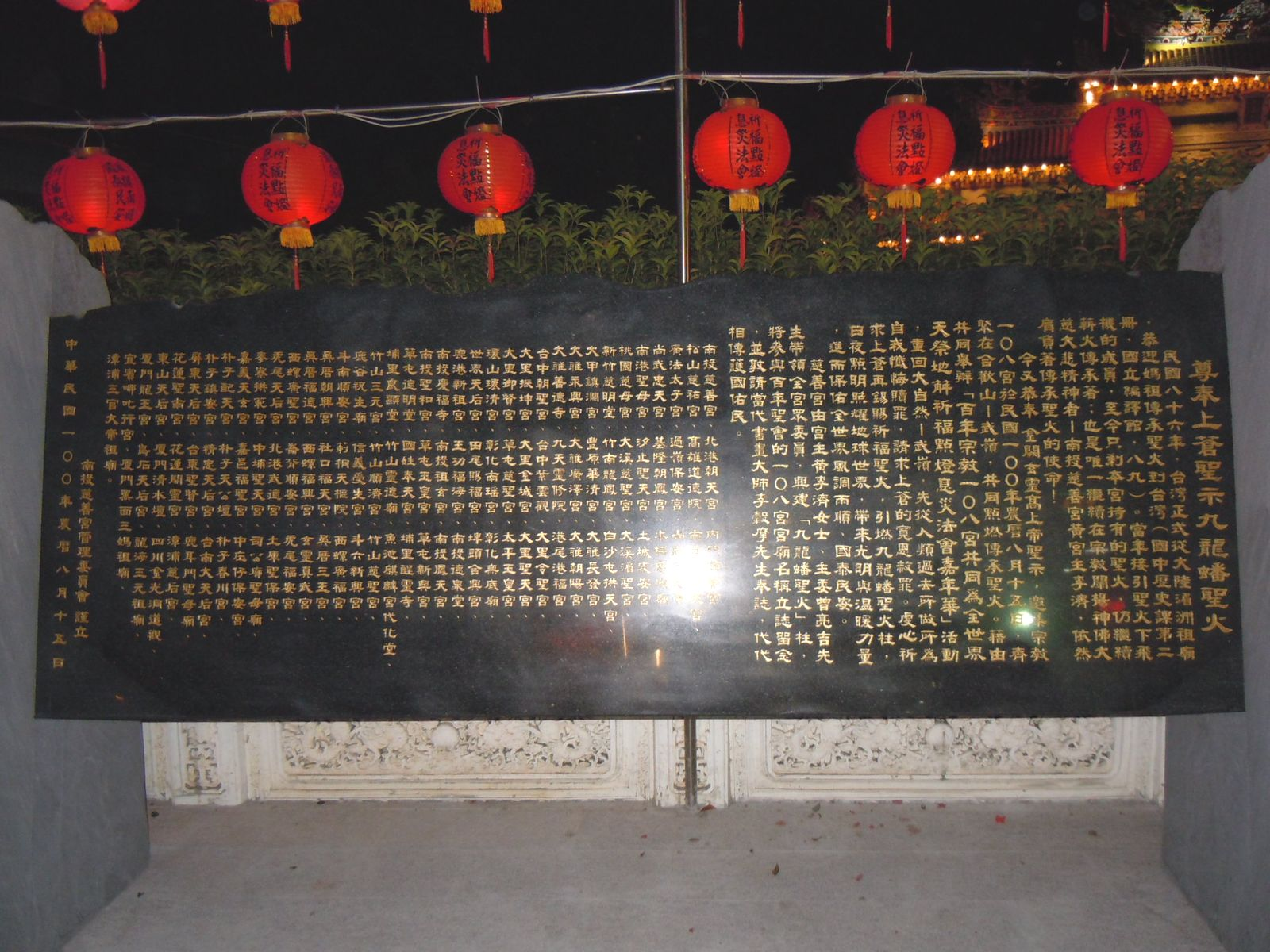 The flame or fire of Jiulongfan in Cishan Temple, Nantou.